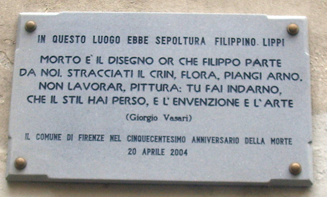 San Michelino visdomini, plate about Filippino Lippi's tomb in Florence, Italy